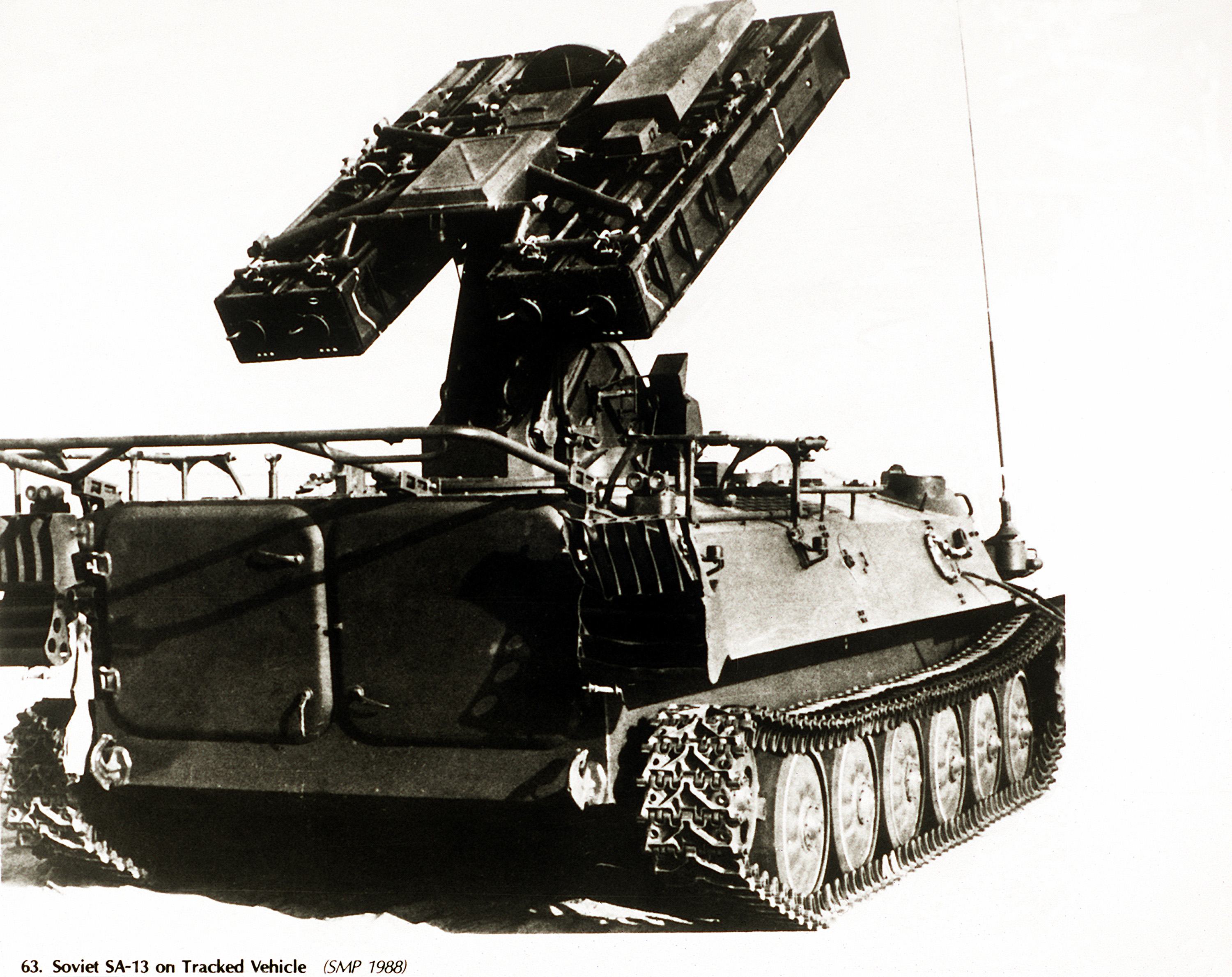 The SA-13 Gopher is a highly mobile, visually-aimed, optical/infra-red guided, low-altitude, short-range surface to air missile system. Its russian designation is reporting name is 9K35 Strela-10.